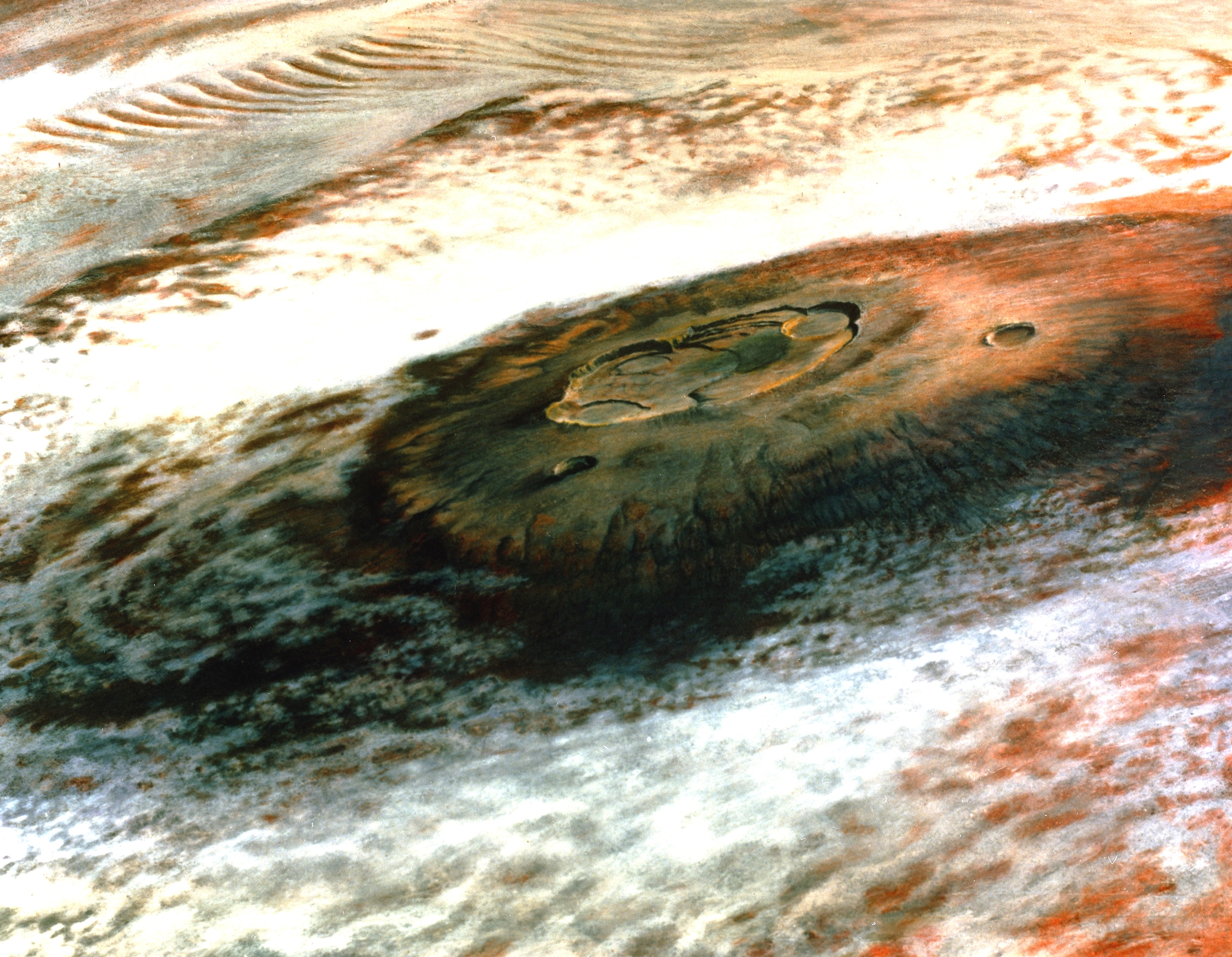 Olympus Mons, a Martian volcano, photographed by the Viking 1 spacecraft from 5000 miles away